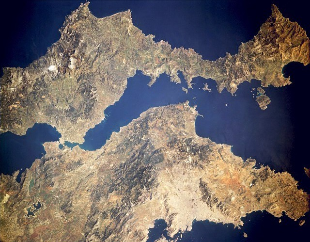 This image has been rotated by 180 degrees, but is otherwise identical to Euboea_island.jpg, freely available because it is a NASA image. The orientation is now with NE uppermost.